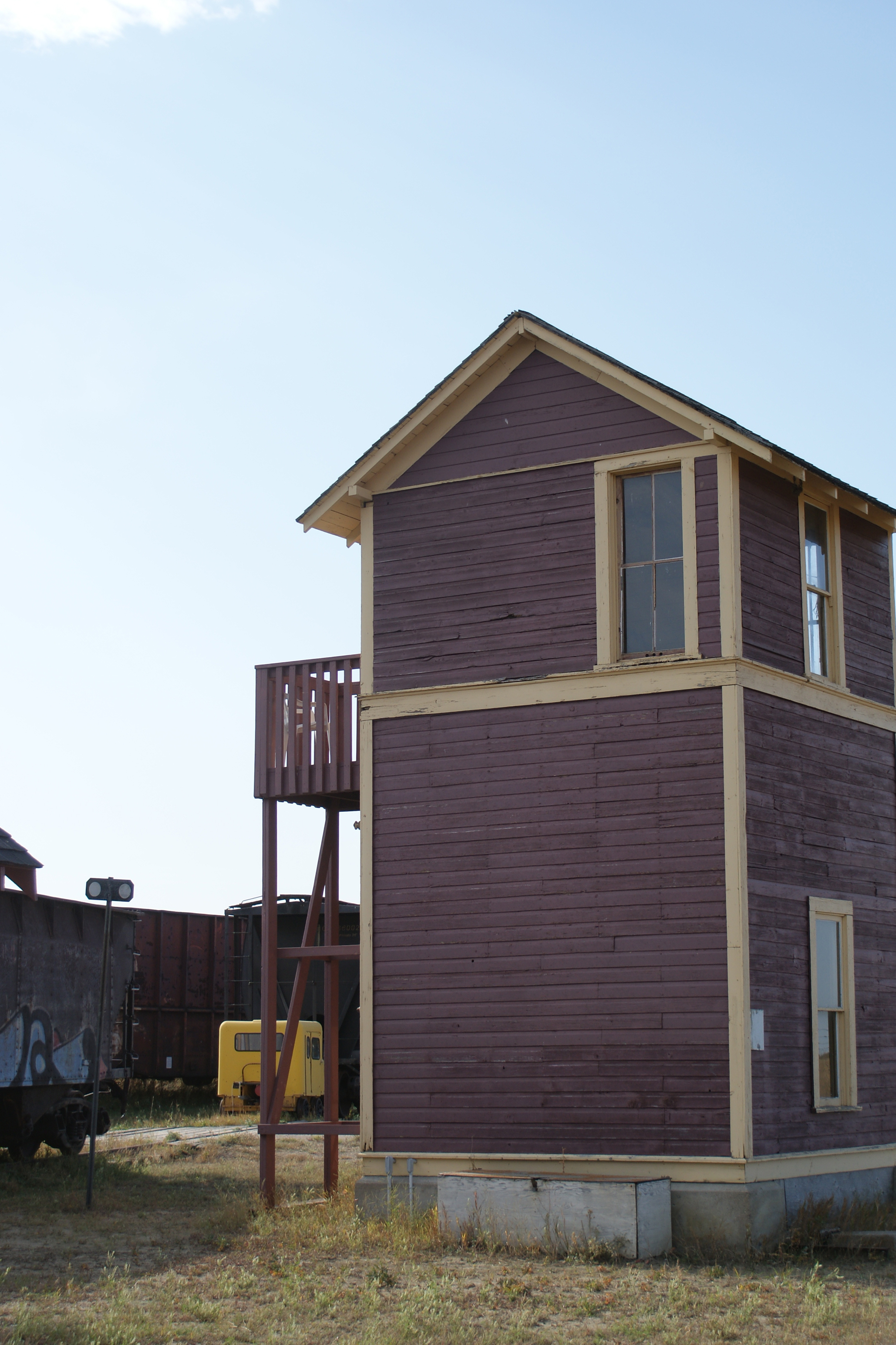 Saskatchewan Railway Museum preserves the Oban interlocking Grand Trunk Pacific Railway tower. This tower with its semaphore signals and rod and linkage derails was a requirement when the GTP crossed the CPR at Oban, Saskatchewan